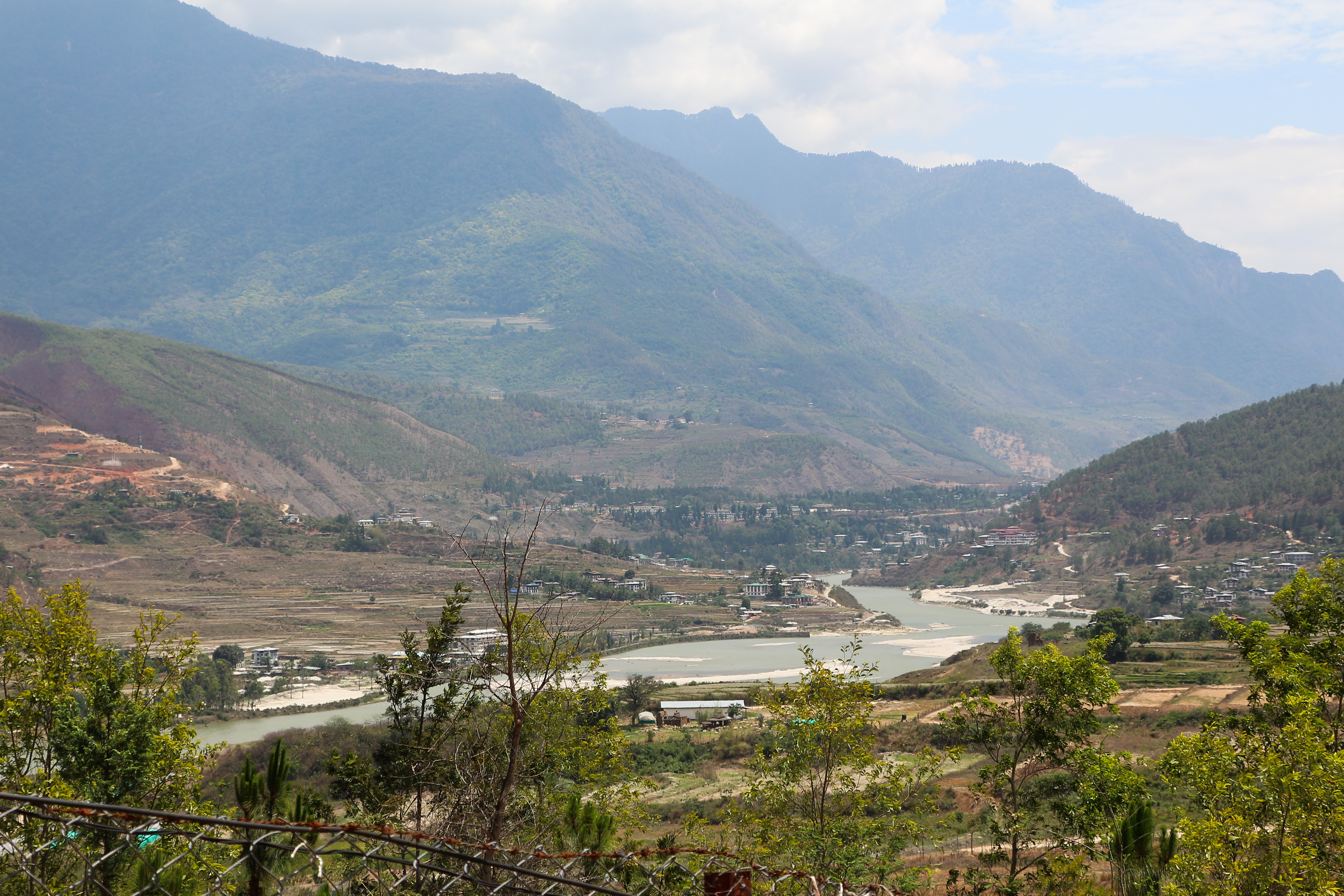 Puna Tsang Chu River (Sankosh River) near Sopsokha, Bhutan